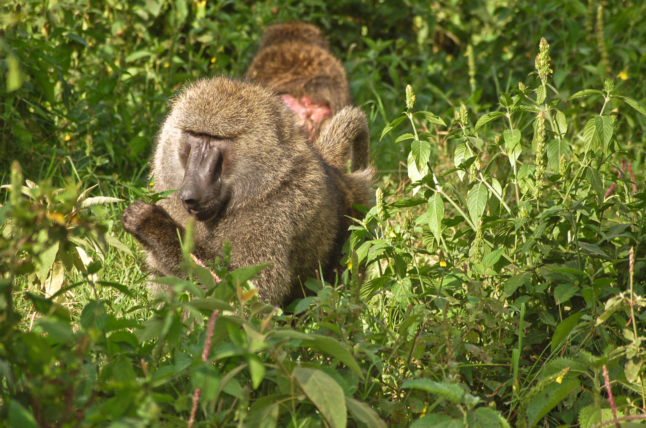 Olve Baboon or Anubis Baboon (Papio anubis) in Kenya